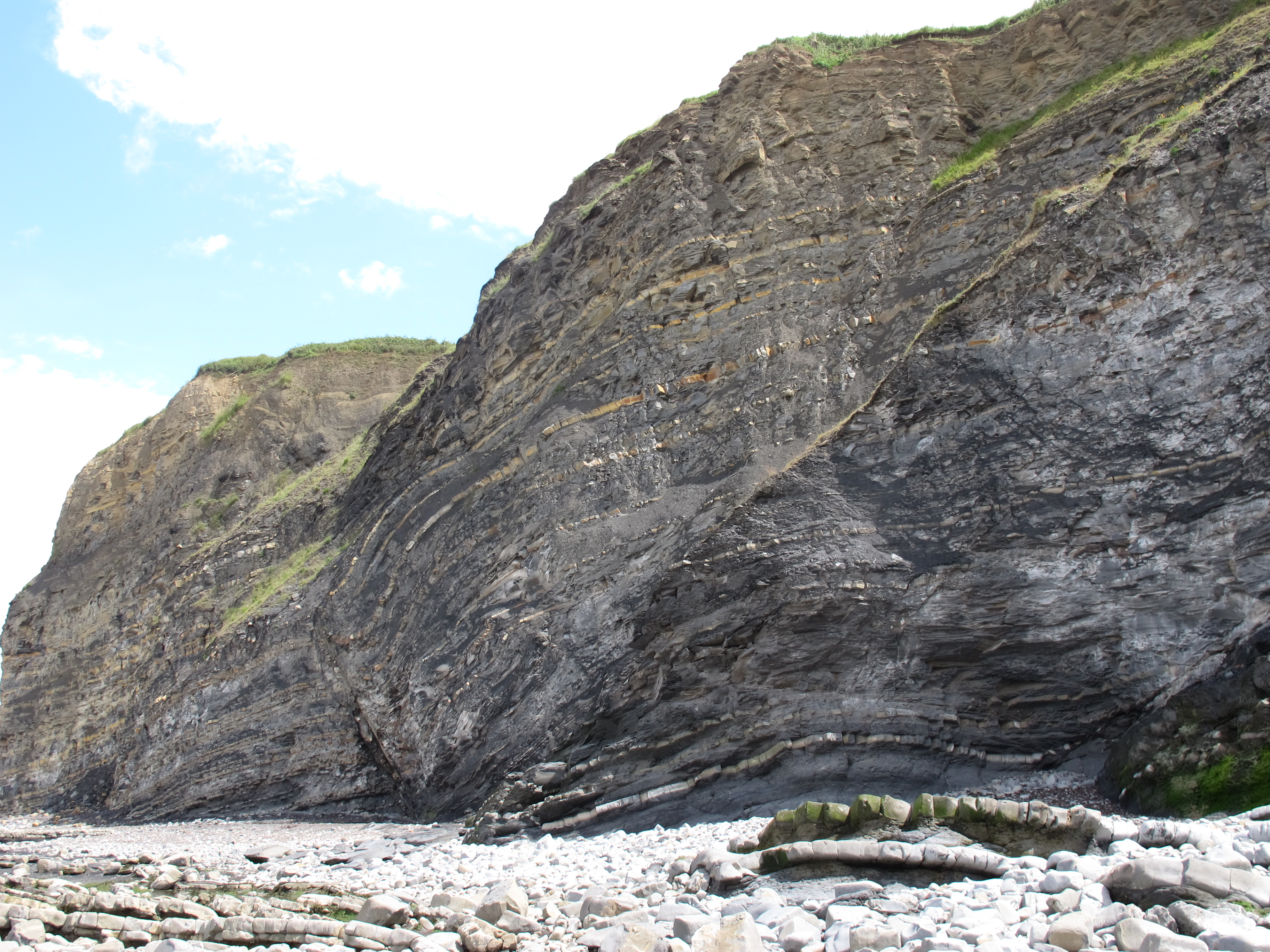 The Quantocks Head Fault near Kilve. Formed as a normal fault it was reactivated in reverse sense during the Cenozoic forming the anticline. Small reverse faults are developed within the hanging wall. See Dart et al. 1995 and Glen et al. 2005.